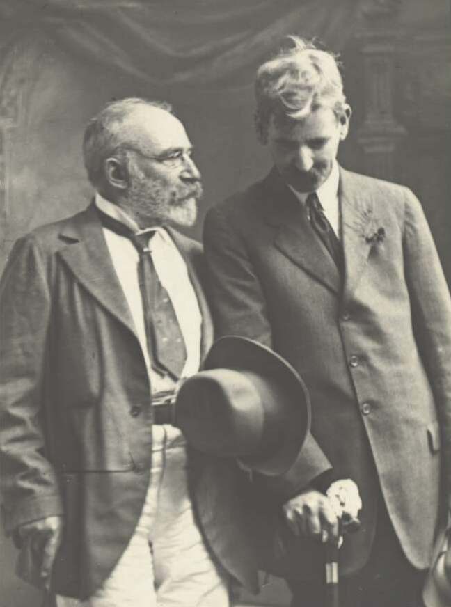 This image shows a photograph of J.F. Archibald (left), and Henry Lawson (right), taken in the 19th century. Under Australian law, all photographs taken in Australia before 1955 are in the public domain. This image is in the public domain under both Australian copyright law and US copyright law.